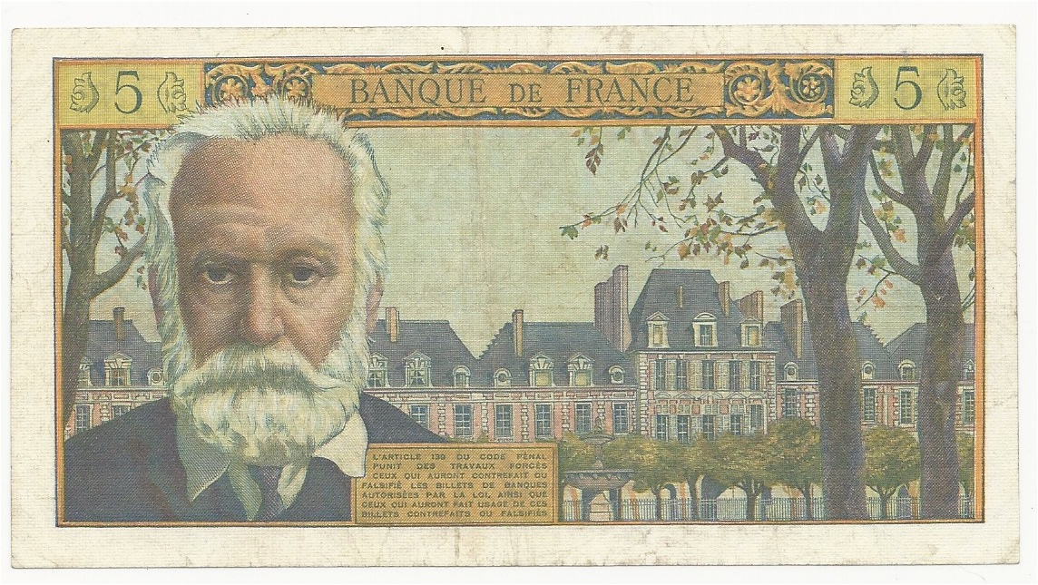 Hugo, Victor, Poet, 1802 Besançon - 1885 Paris Portrait r. of his burial place the Panthéon in Paris / Portrait l. of Place des Vosges in Paris where he used to live. Pick 141a. Condition: An almost VERY FINE bank note. Some handling, folds, no nicks, no tears, no pinholes, no hidden problems.